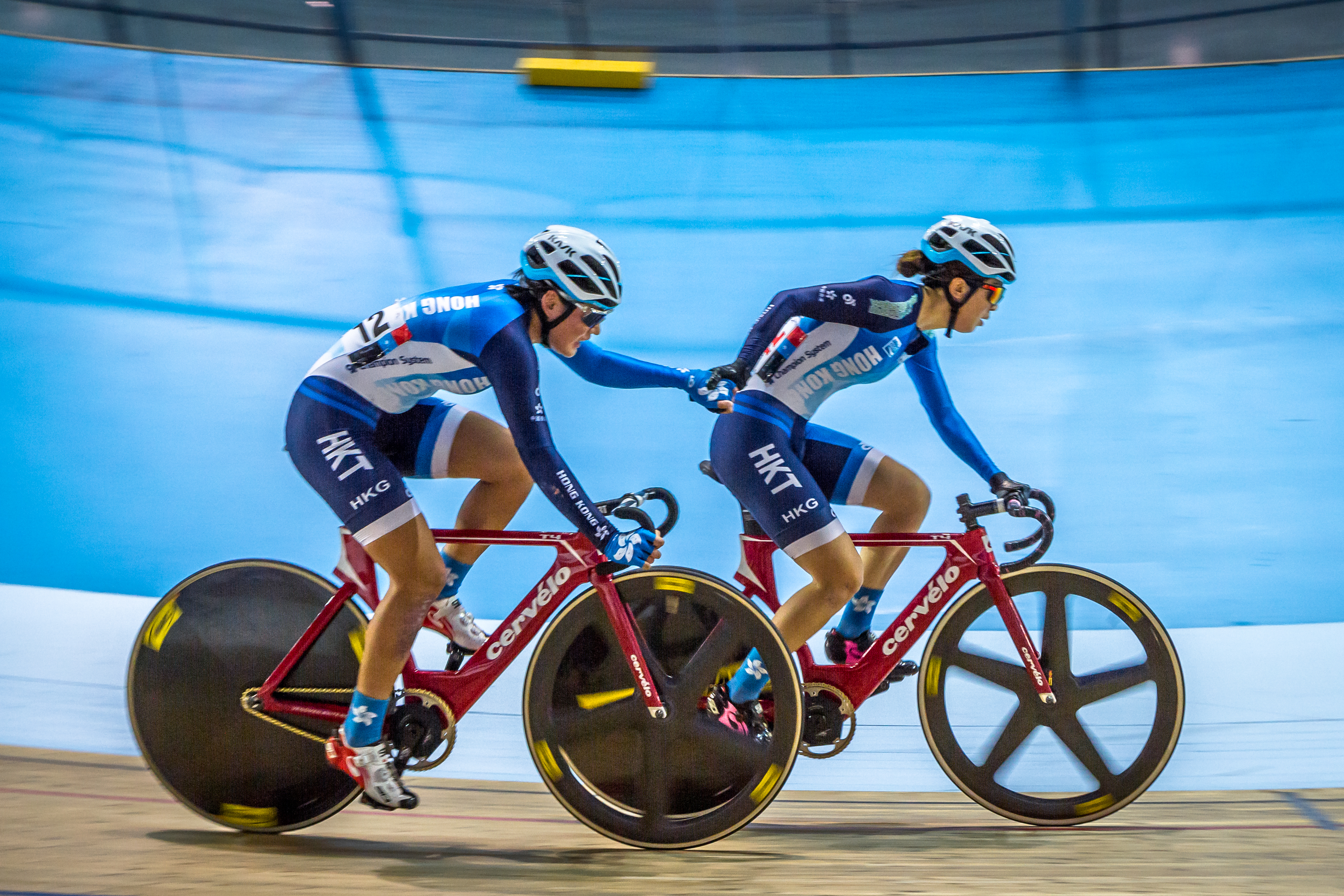 Yao Pang & Qianyu Yang of Hong Kong. Women's 30k Madison. UCI Track World Cup, Milton, Ontario, Canada. 2017.